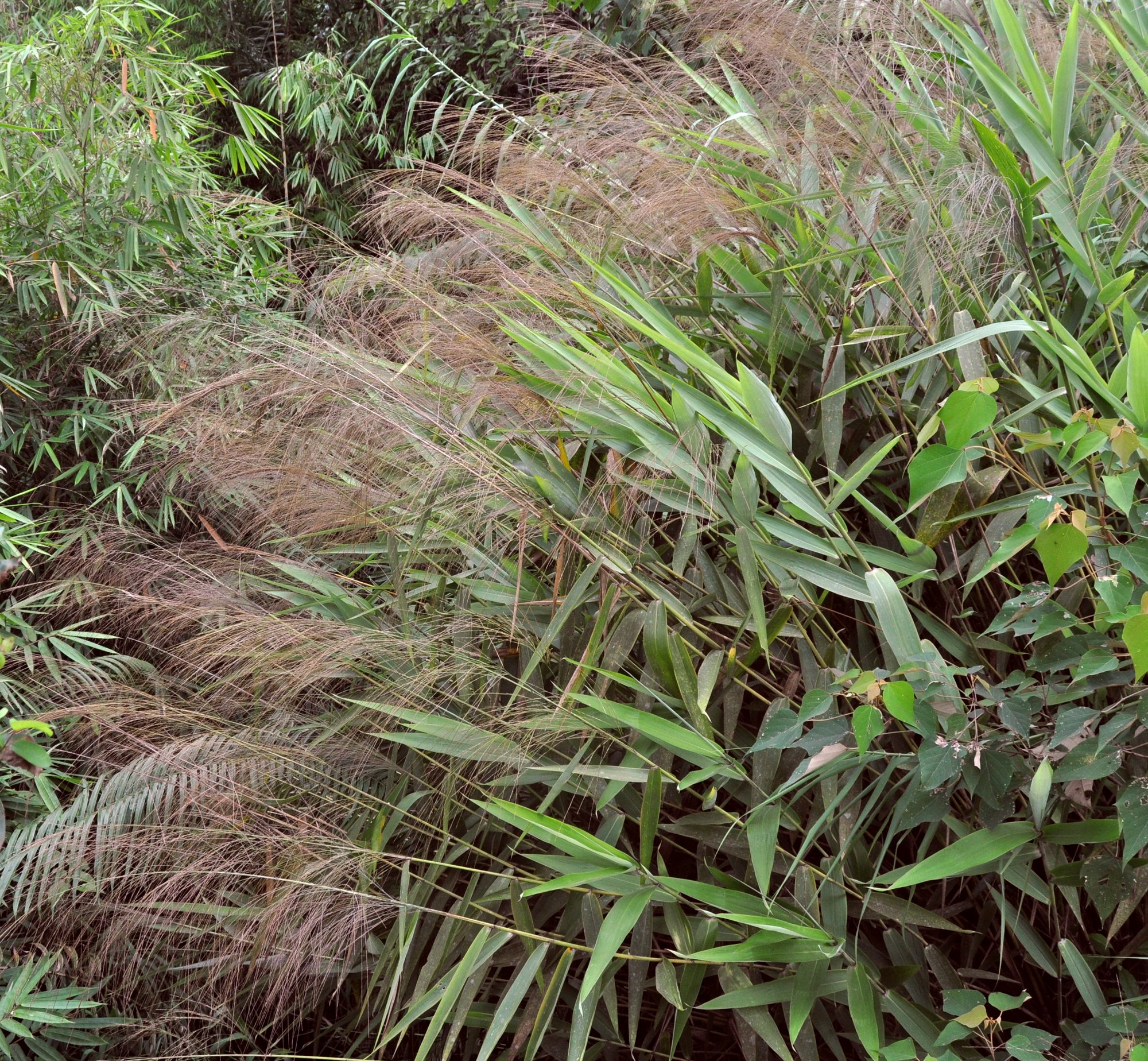 Thysanolaena latifolia, habits. From Simalungun, North Sumatra, Indonesia.